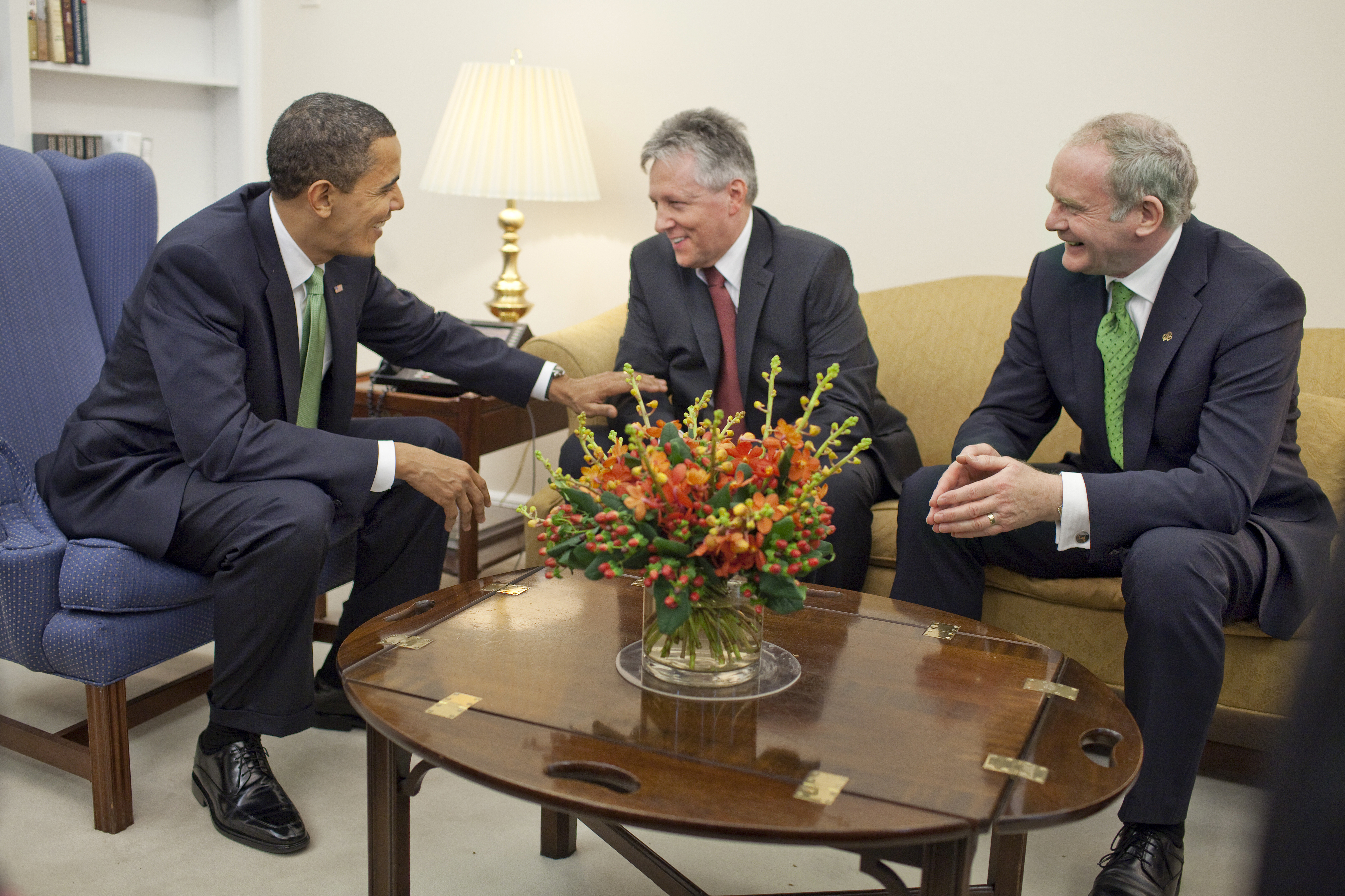 United States President Barack Obama meets with Northern Ireland First Minister Peter Robinson, centre, and Northern Ireland Deputy First Minister Martin McGuinness at the White House.